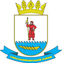 Coats of arms of Synelnykove Raion Dnipropetrovk oblast Ukraine